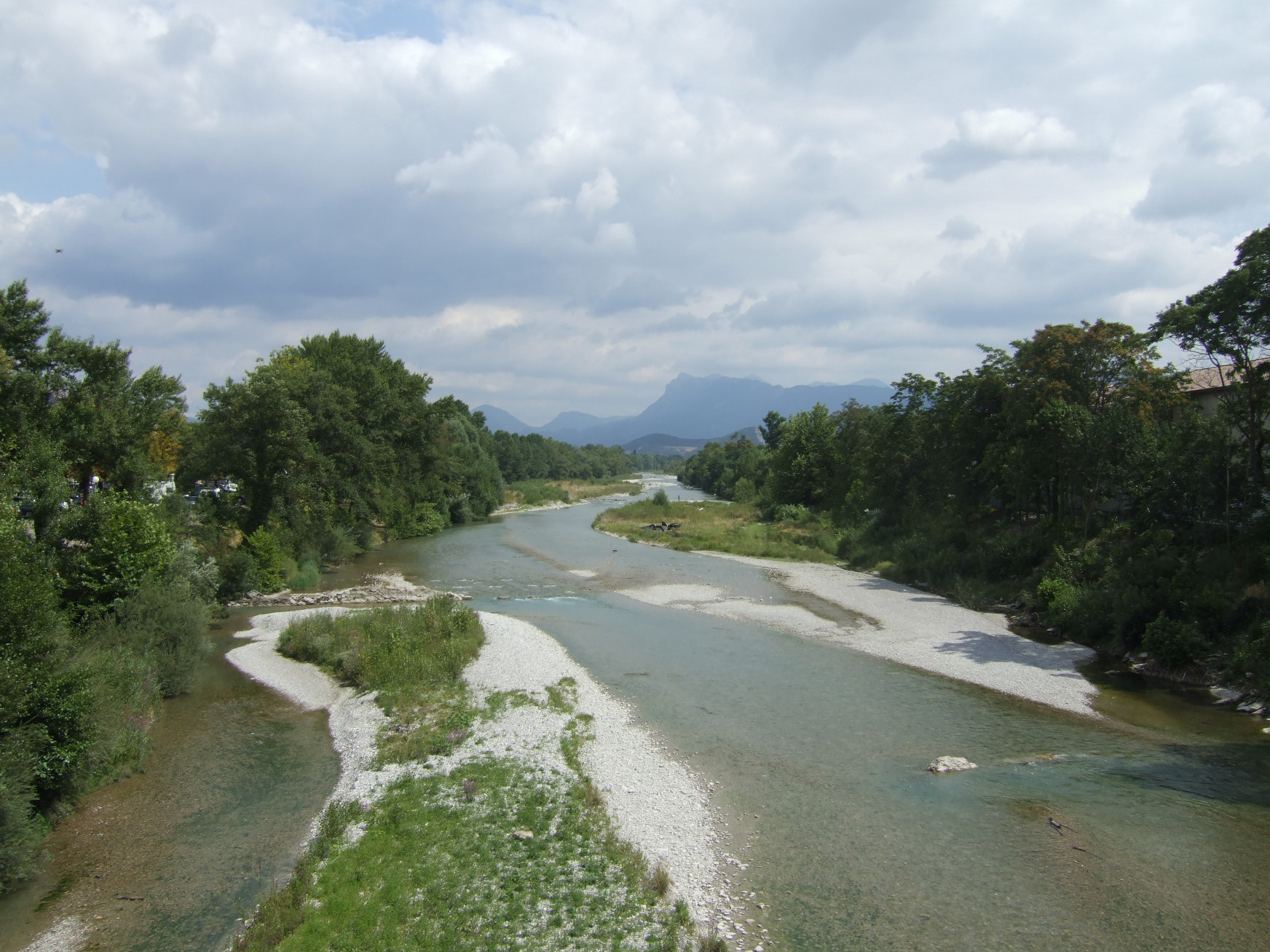 Drôme river in France at Crest